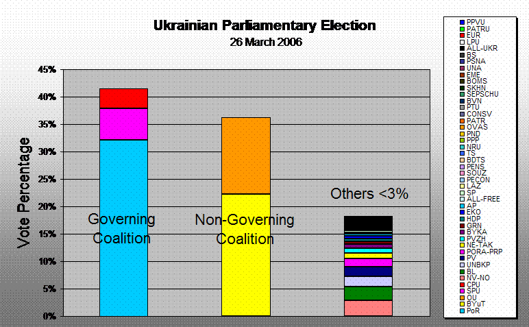 Ukrainian Parliamentary Election 2006 - Results (Political Alignment) Chart